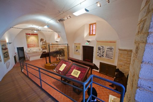 The museum of Surgery in Preci